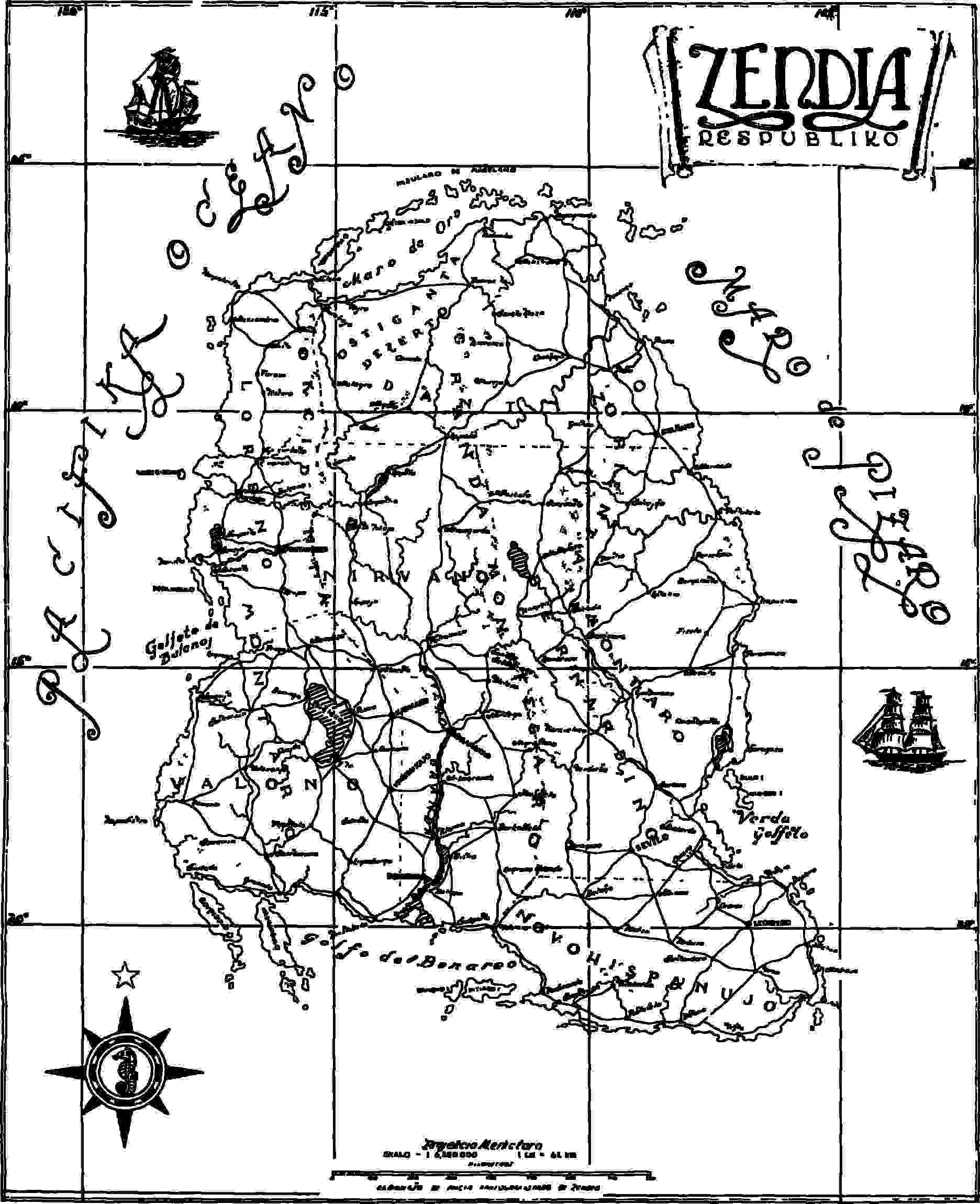 Low-resolution map of Zendia from textbook